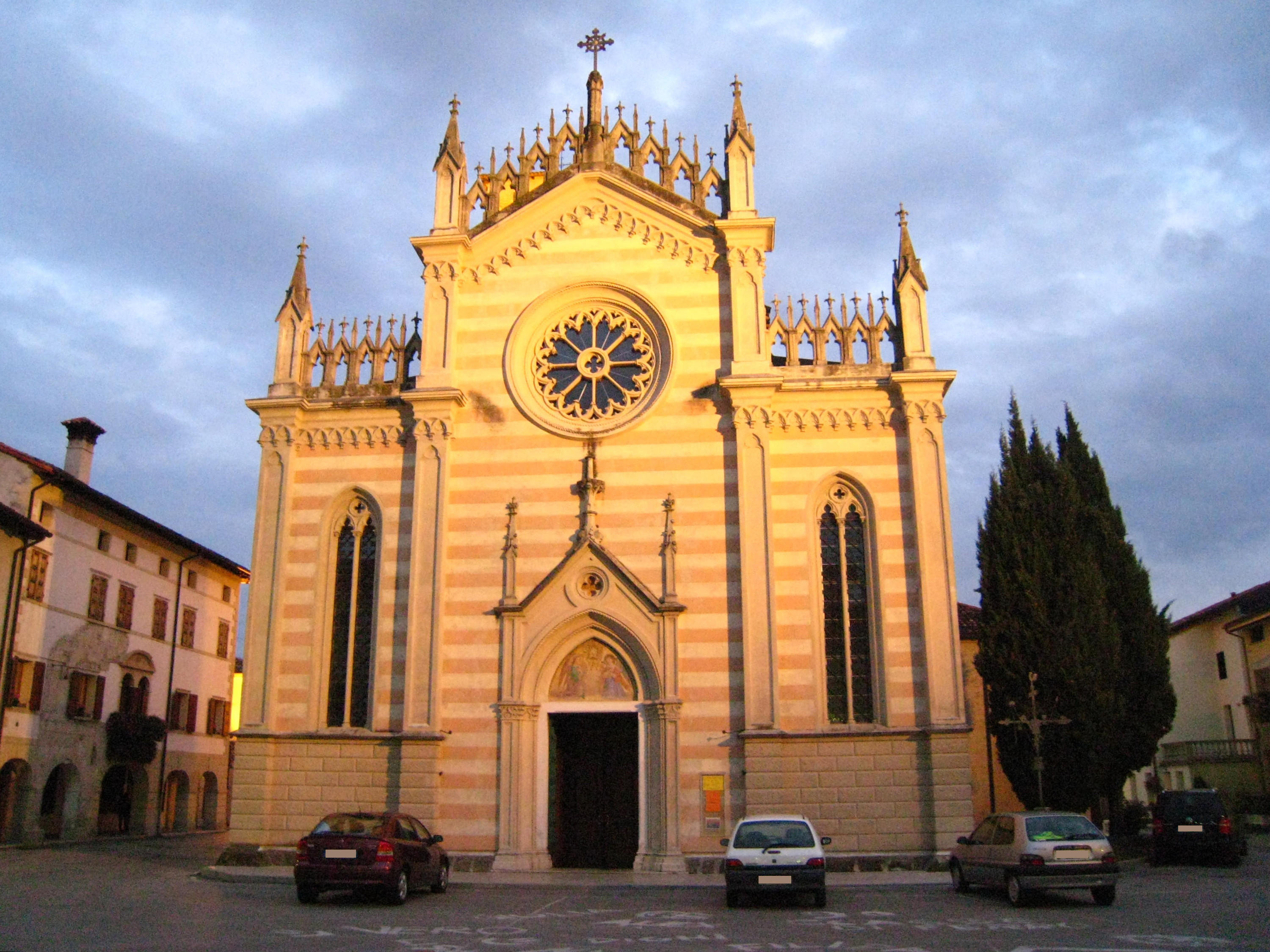 Façade of the Corpus Domini church in Valvassone, province of Pordenone, Italy